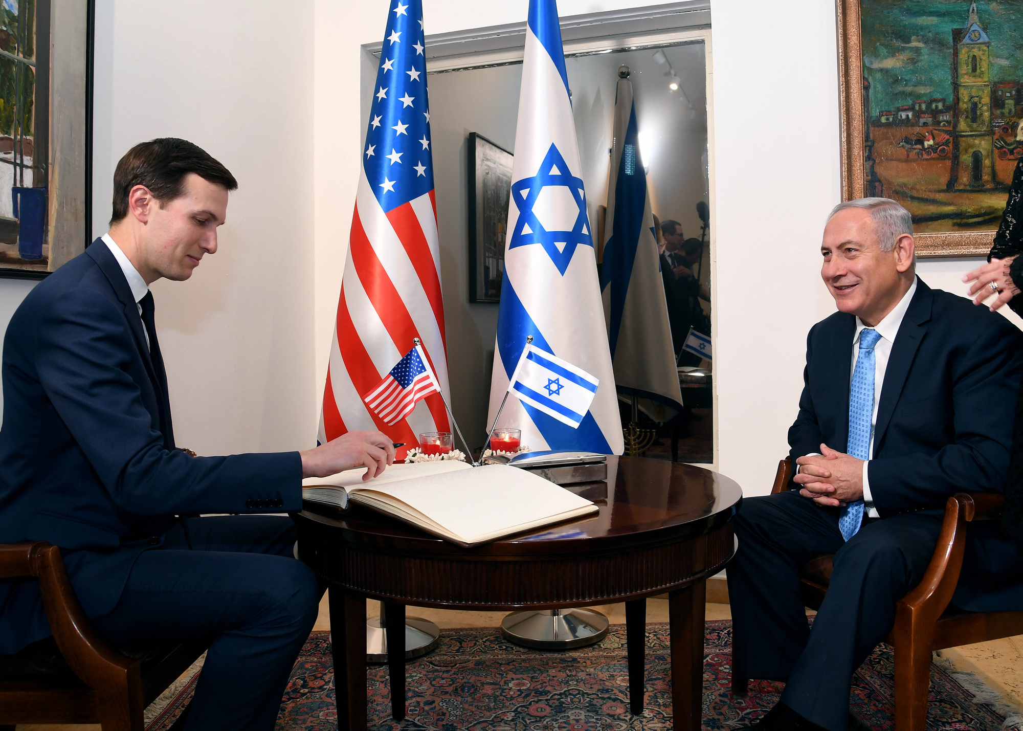 Embassy Dedication Ceremony